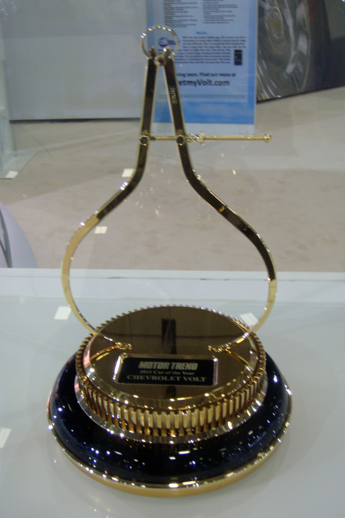 2011 Motor Trend Car of the Year award exhibited at the 2011 Washington D.C. Auto Show. Award was won by the 2011 Chevrolet Volt.